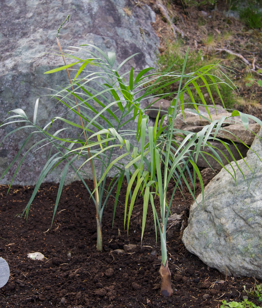 Two small Chamaedorea radicalis palms